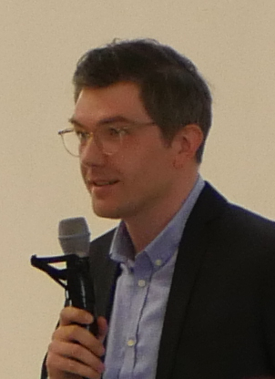 Sunyaev Ali profile photo